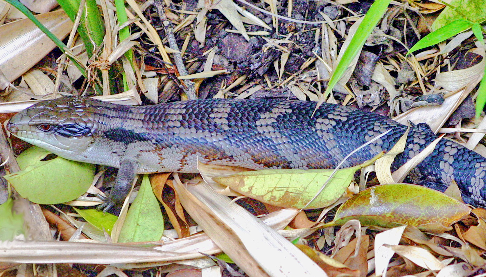 Eastern blue-tongued lizard in a Melbourne garden. November 2005